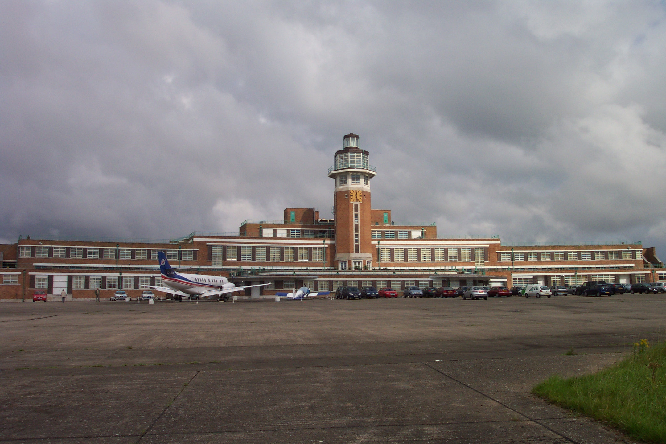 The Crowne Plaza Liverpool John Lennon Airport Hotel, formerly the terminal building of Liverpool Speke Airport, from the former airside. Here the hotel is seen from the former airside apron of the airport. Both the central terminals and airside wings are original, and the terraces which featured in old newsreel footage of screaming fans welcoming home the Beatles can be seen. The plane was a prototype for the BAe Jetstream 41, and is now preserved by a local aviation group. For more information, see the Wikipedia article Crowne Plaza Liverpool John Lennon Airport Hotel.